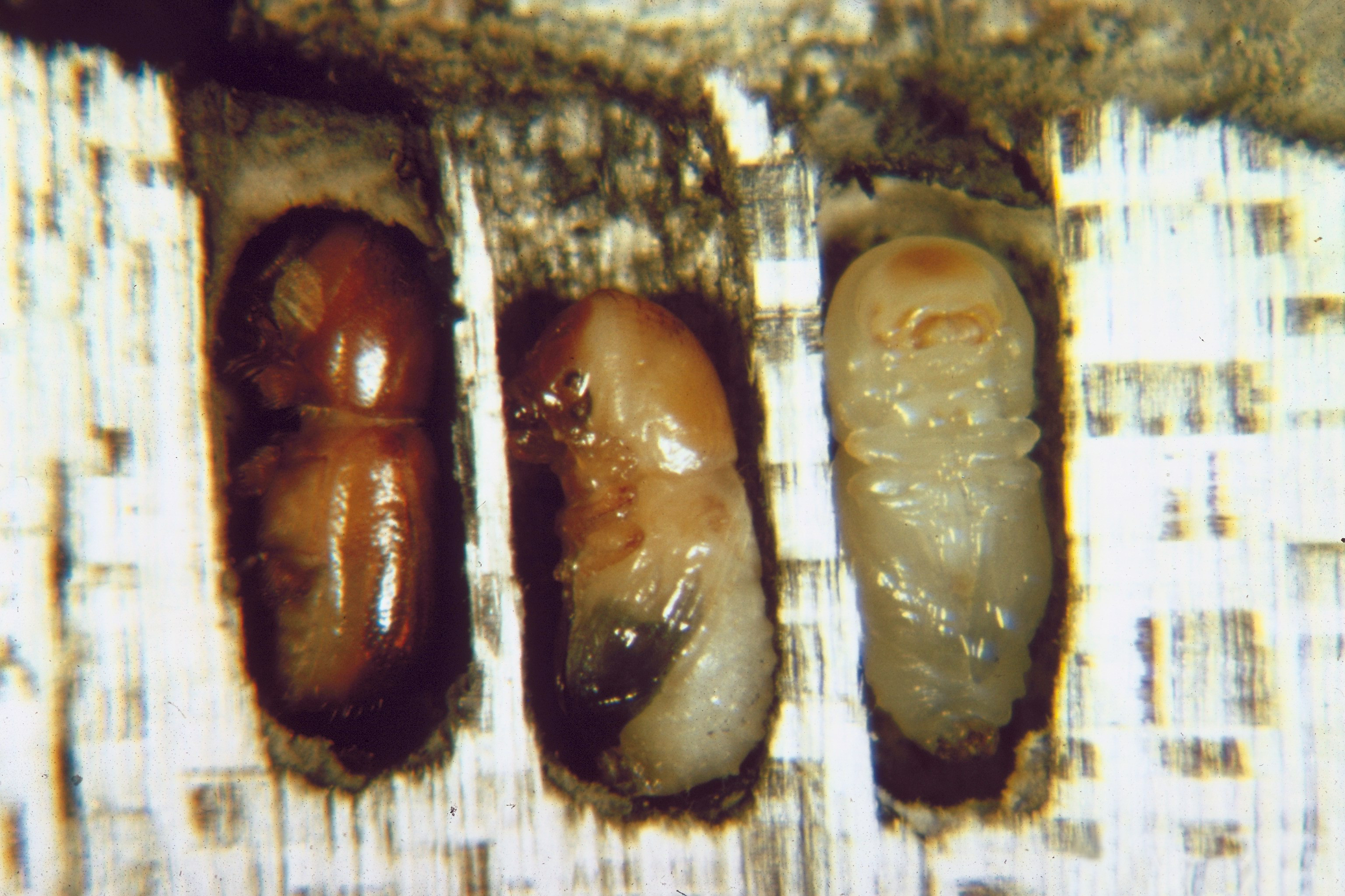 Adult Columbian timber beetle, at left, with two pupae in brood cells